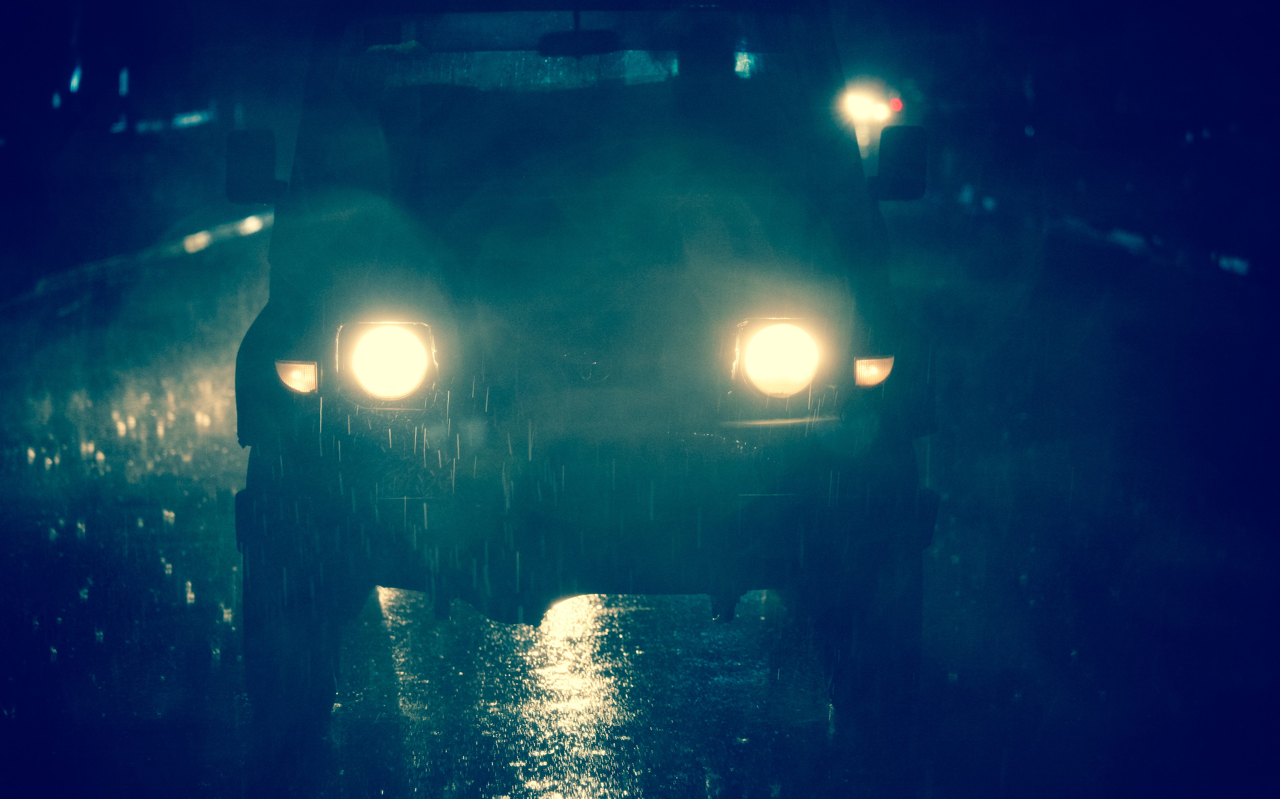 Driving in the Monsoon Rain